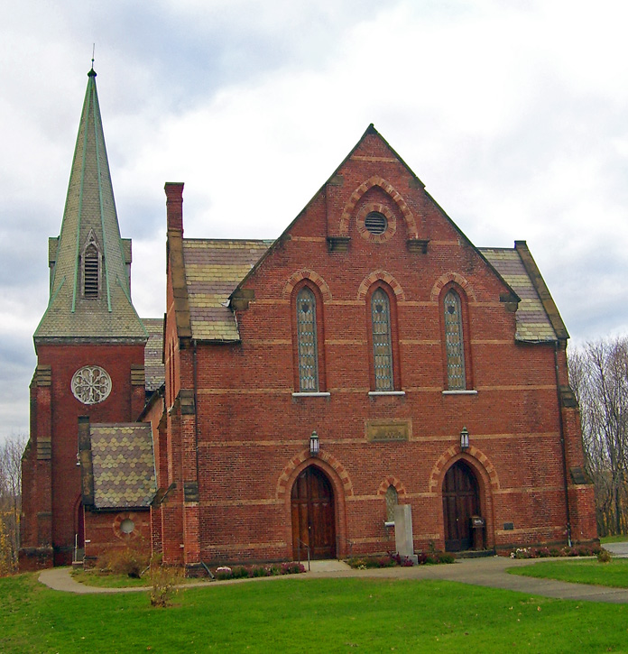 Photographed by Daniel Case 2006-11-18